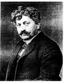 Picture of Fritz Weidner